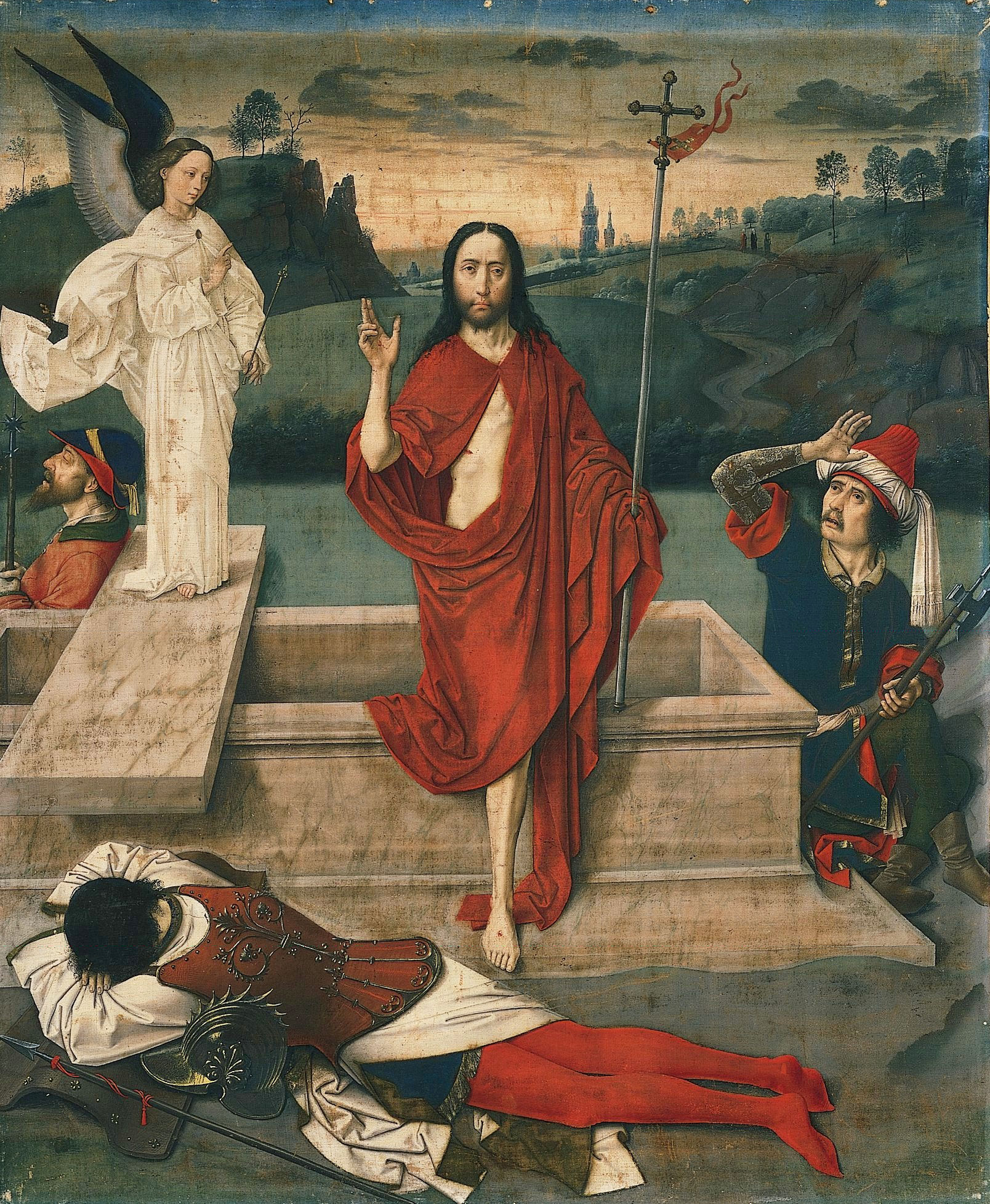 Resurrection